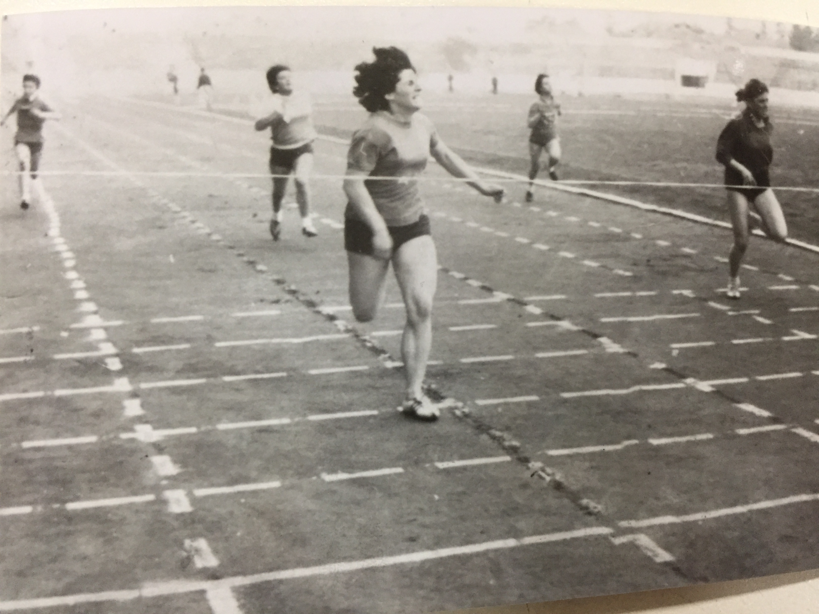 Myzejen Dervishi (Duli)